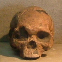 Fossil Wadjak I. Collection of National Museum of Indonesia, Jakarta.)